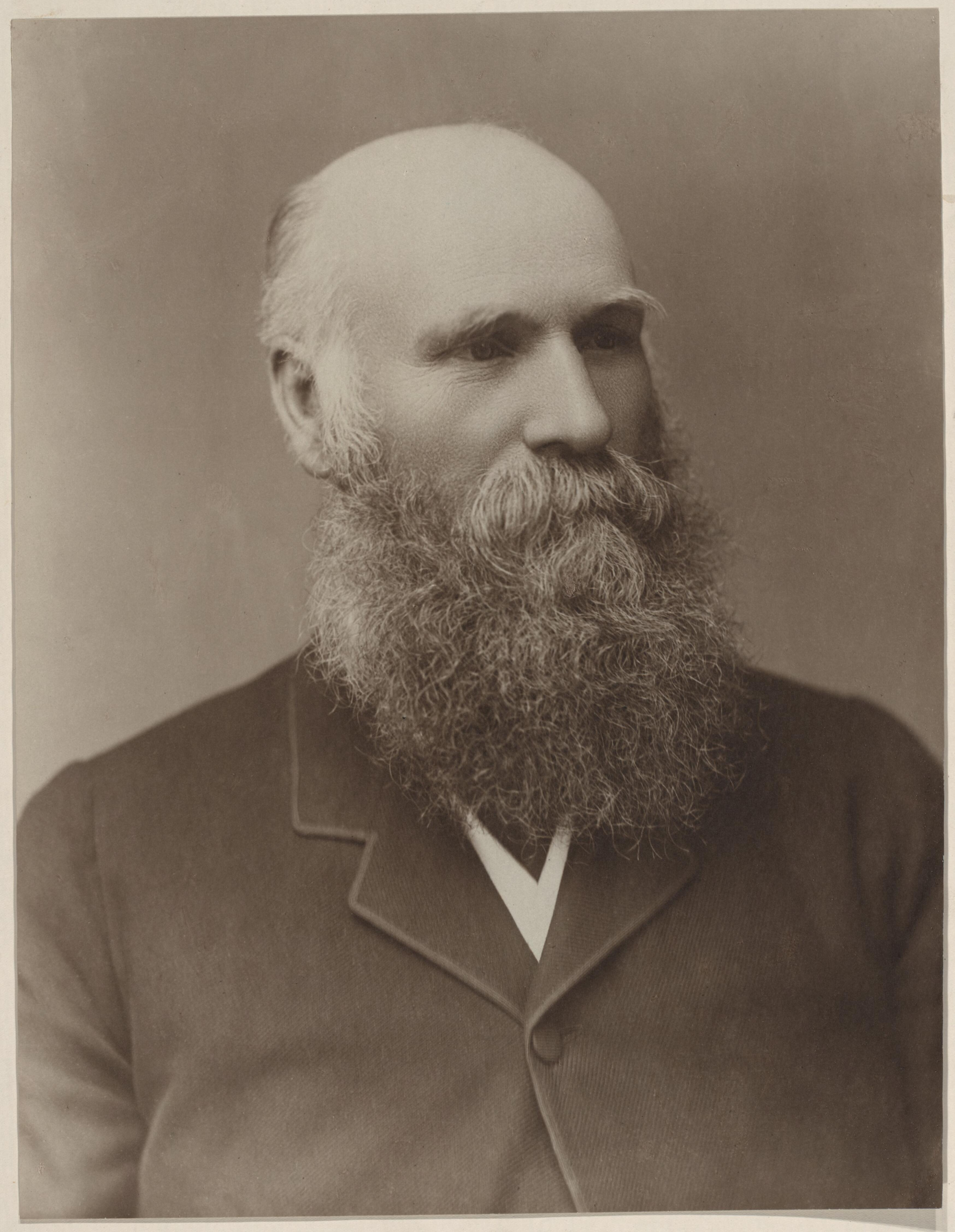 Australian politician Sydney Smith (Australian politician)